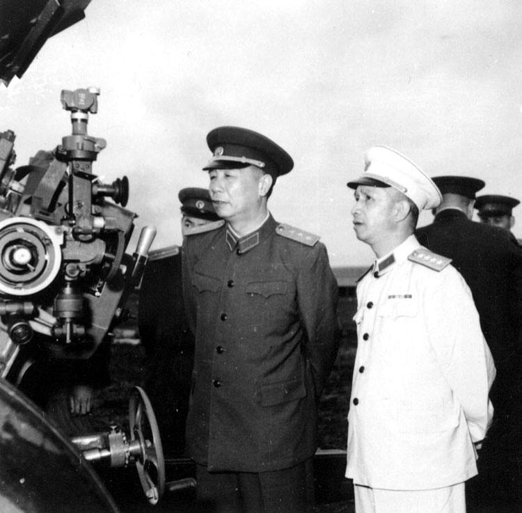 Su Yu (right) inspected maintenance of weapons in military unit with Chen Shiju （陈士榘） in 1957.